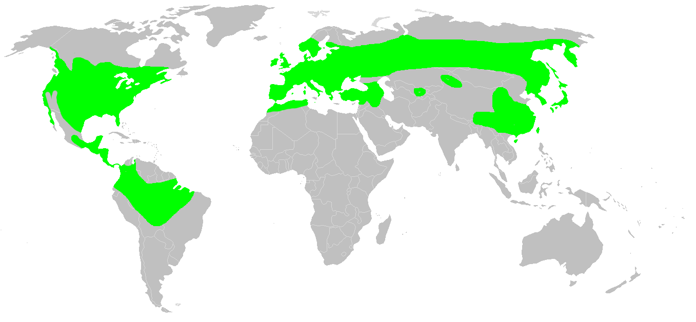 Known world distribution of Caudata (Amphibians). After data from: Cogger, H.G & Zweifel, R.G. (1998). Reptiles & Amphibians". ISBN 0121785602